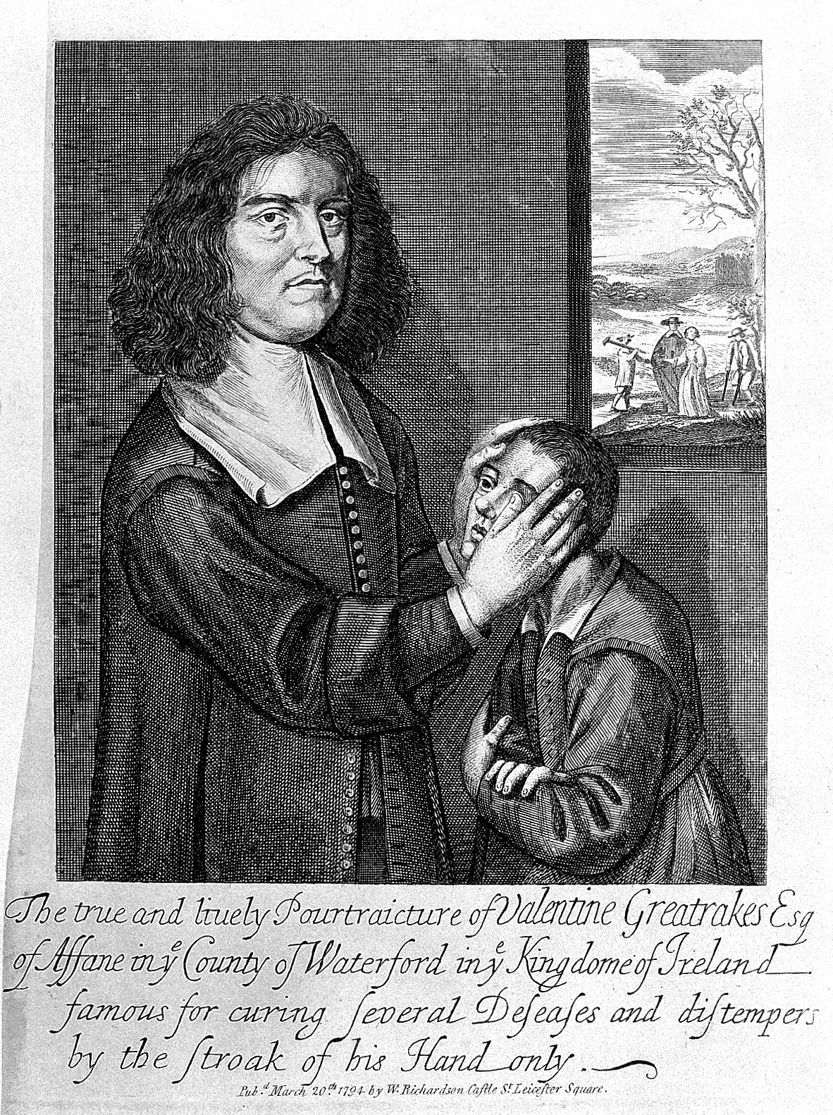 Portrait of Valentine Greatrakes, from an original engraving Iconographic Collections Keywords: Valentine Greatrakes